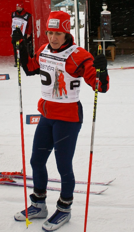 Czekoslovak cross-country skier Květa Jeriová Pecková